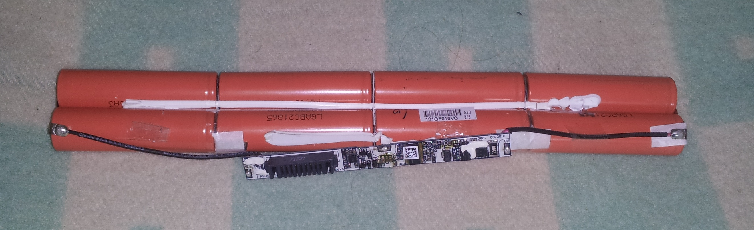 smart battery disassembled